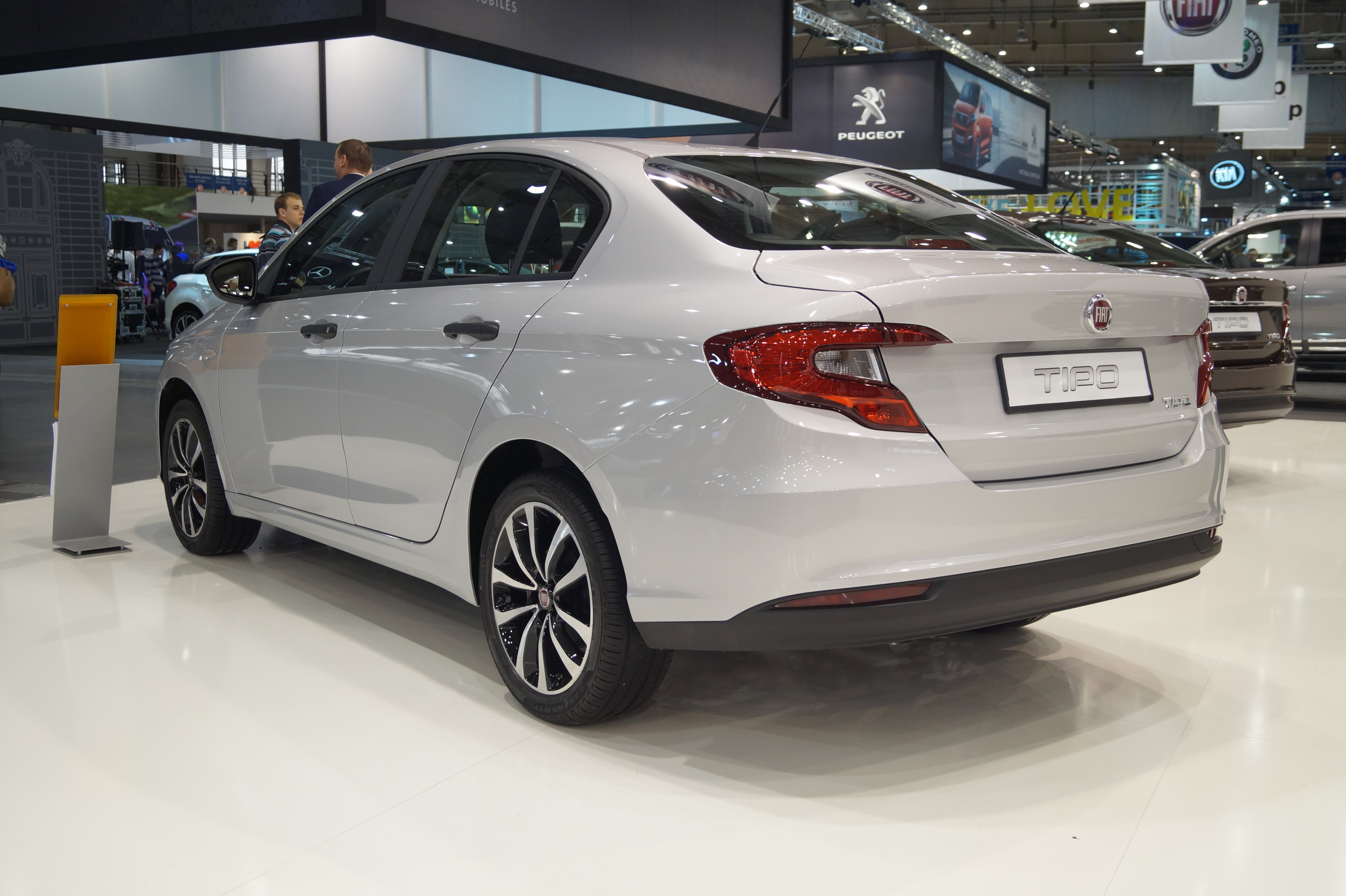 The making of this document was supported by Wikimedia Polska Association, within Wikigrant no. WG 2016-10. English | polski | +/− Tył Fiata Tipo na Motor Show Poznań 2016